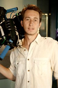 Jonathan Austin on set of The Wind Blows (2011)